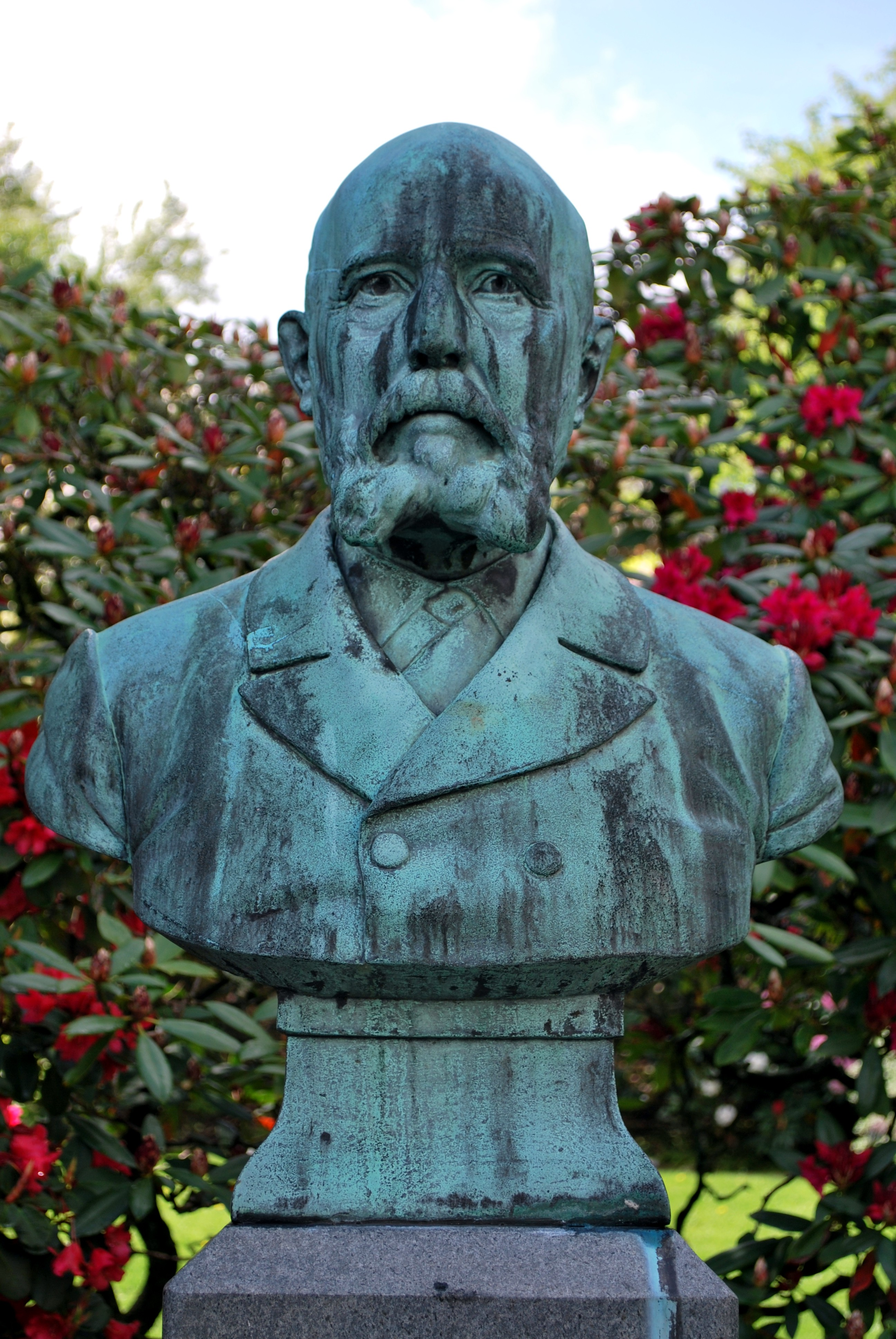 Statue of Dr. Armauer Hansen by artist Jo Visdal (born 1861, died 1923), Botanical garden, University of Bergen, Norway.